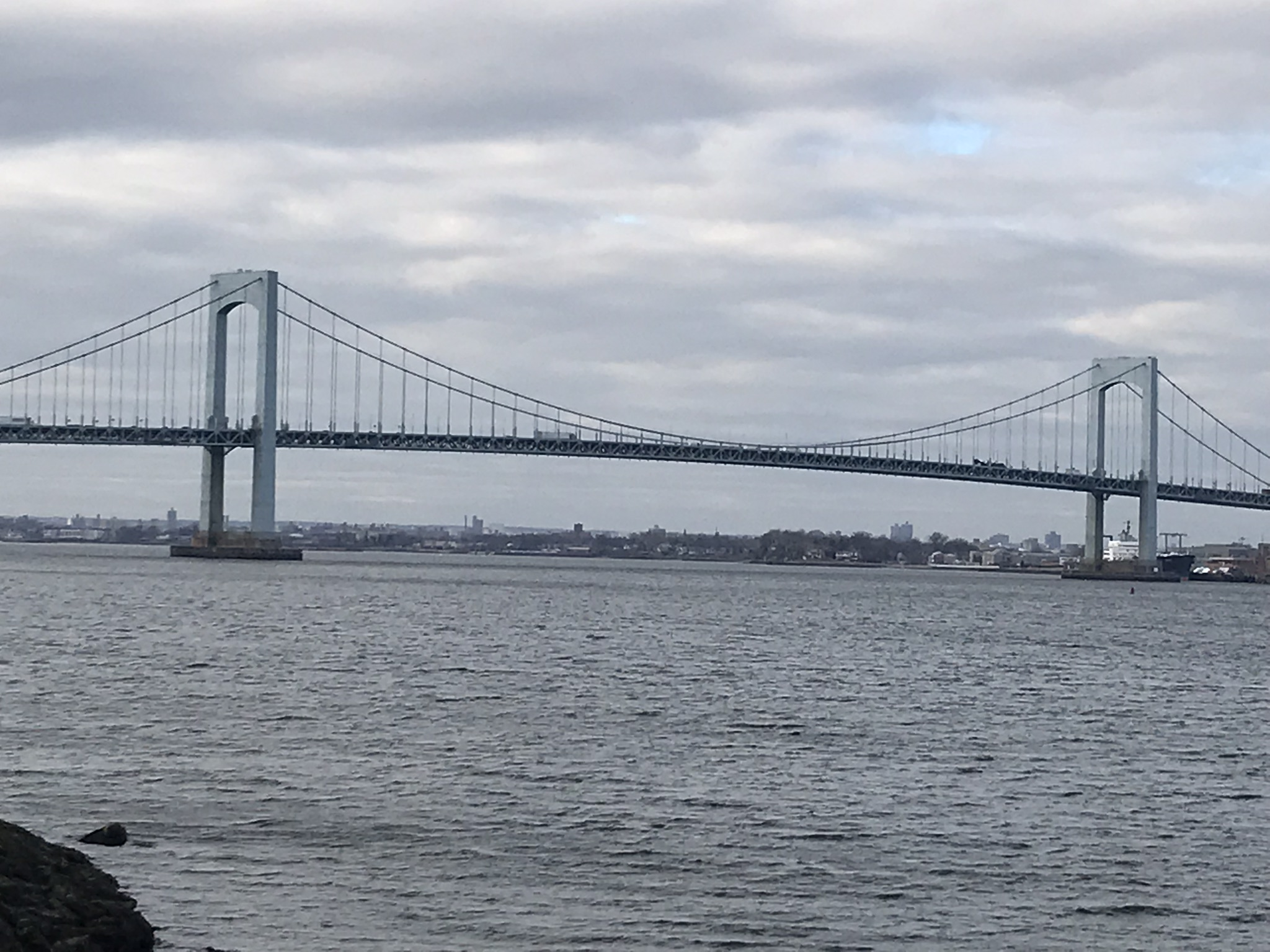 A picture of the Throgs Neck Bridge